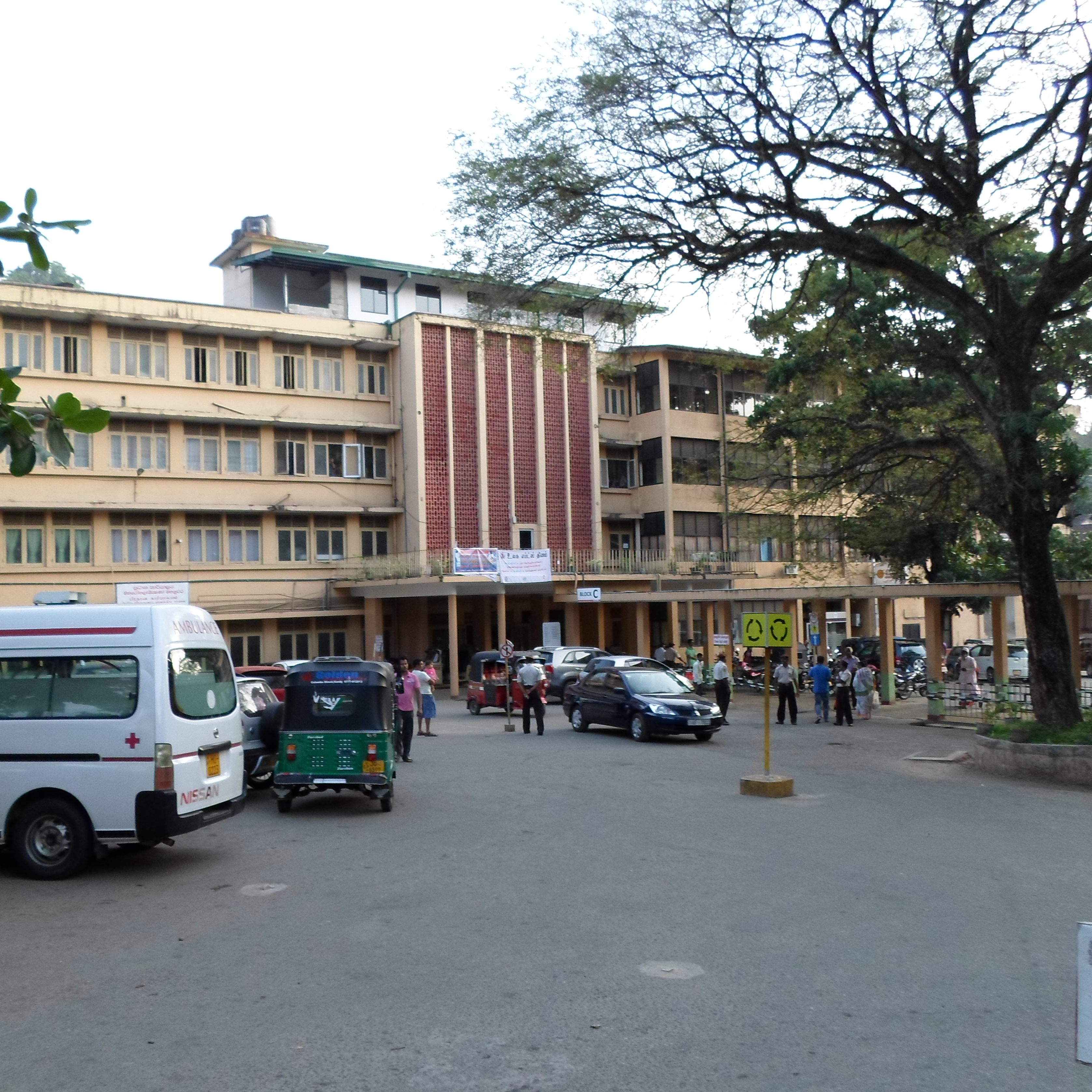 Photograph of Teaching Hospital Kandy.